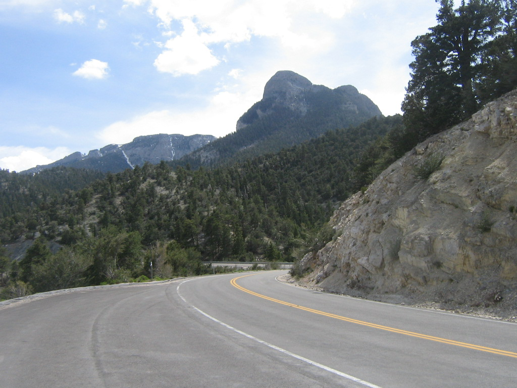 Nevada State Route 158 looking south towards Mount Charleston.